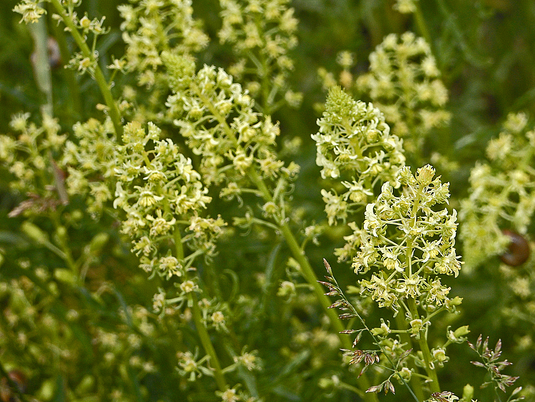 Inflorescences of Reseda phyteuma